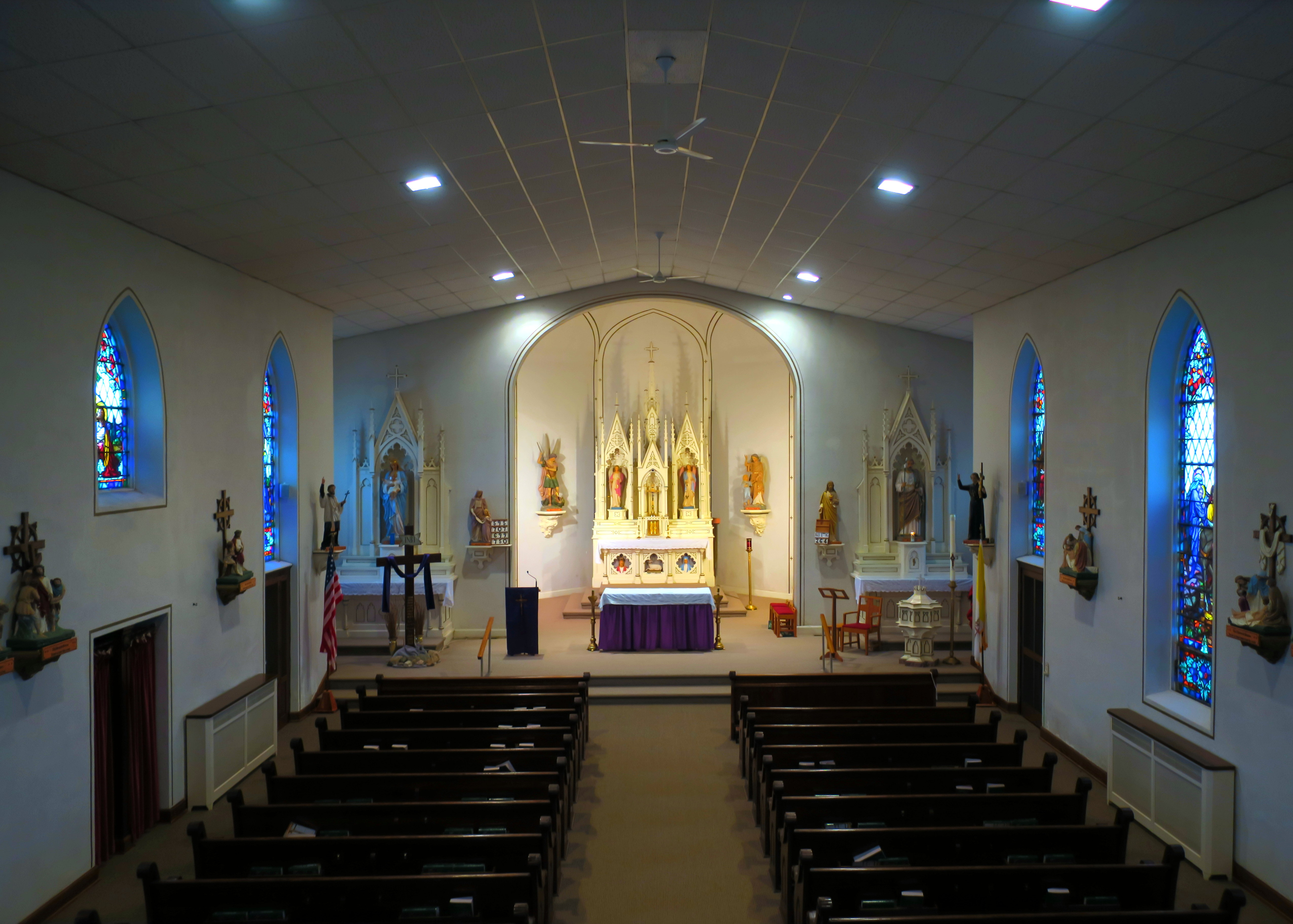 Saint Joseph Church (Egypt, Ohio) - nave